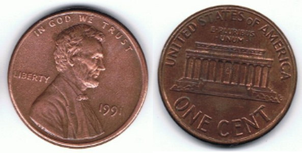 United States cents 1991